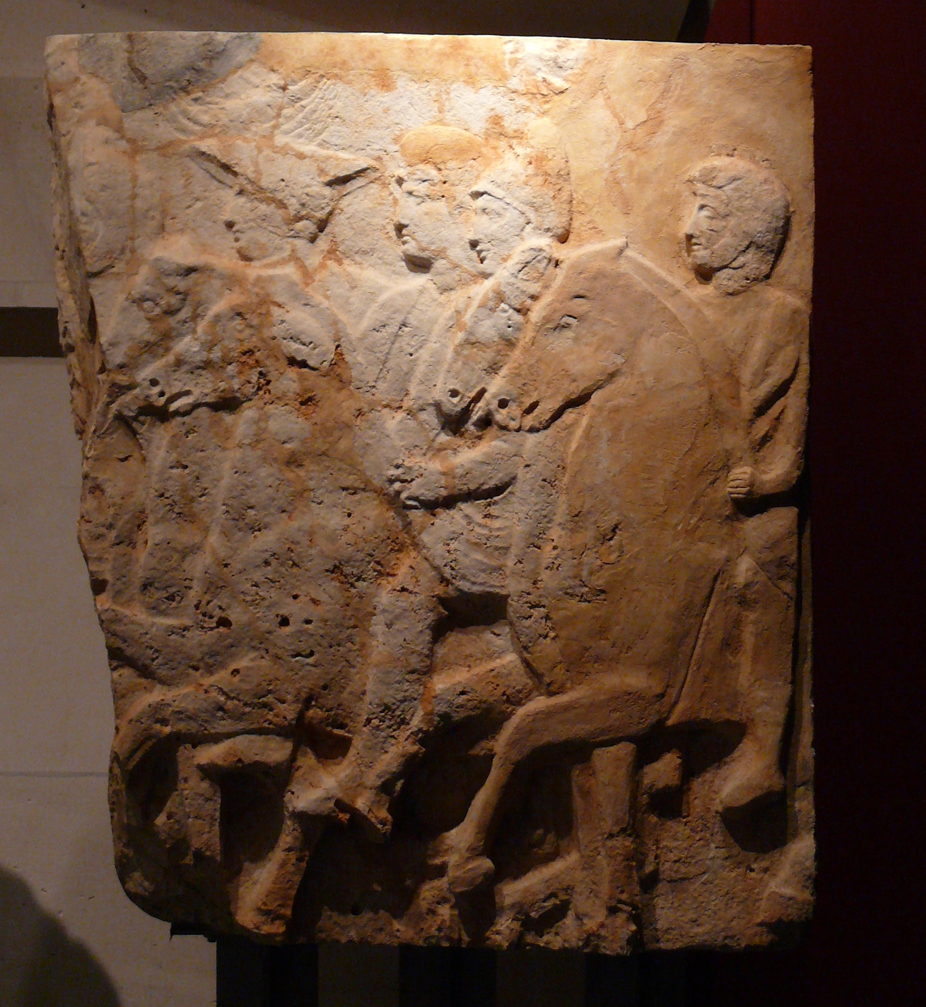 Antalya Archeological Museum, tomb of Pericles, King of Lycia-Limyra (4th century BC)